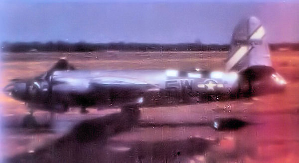 Unidentified 394th Bomb Group B-26 Marauder at RAF Boreham, England.